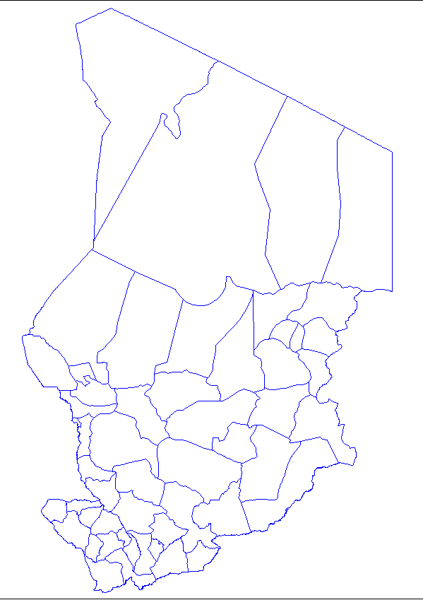 Map of the departments of Chad. Created by Rarelibra 19:08, 10 April 2007 (UTC) for public domain use, using MapInfo Professional v8.5 and various mapping resources.